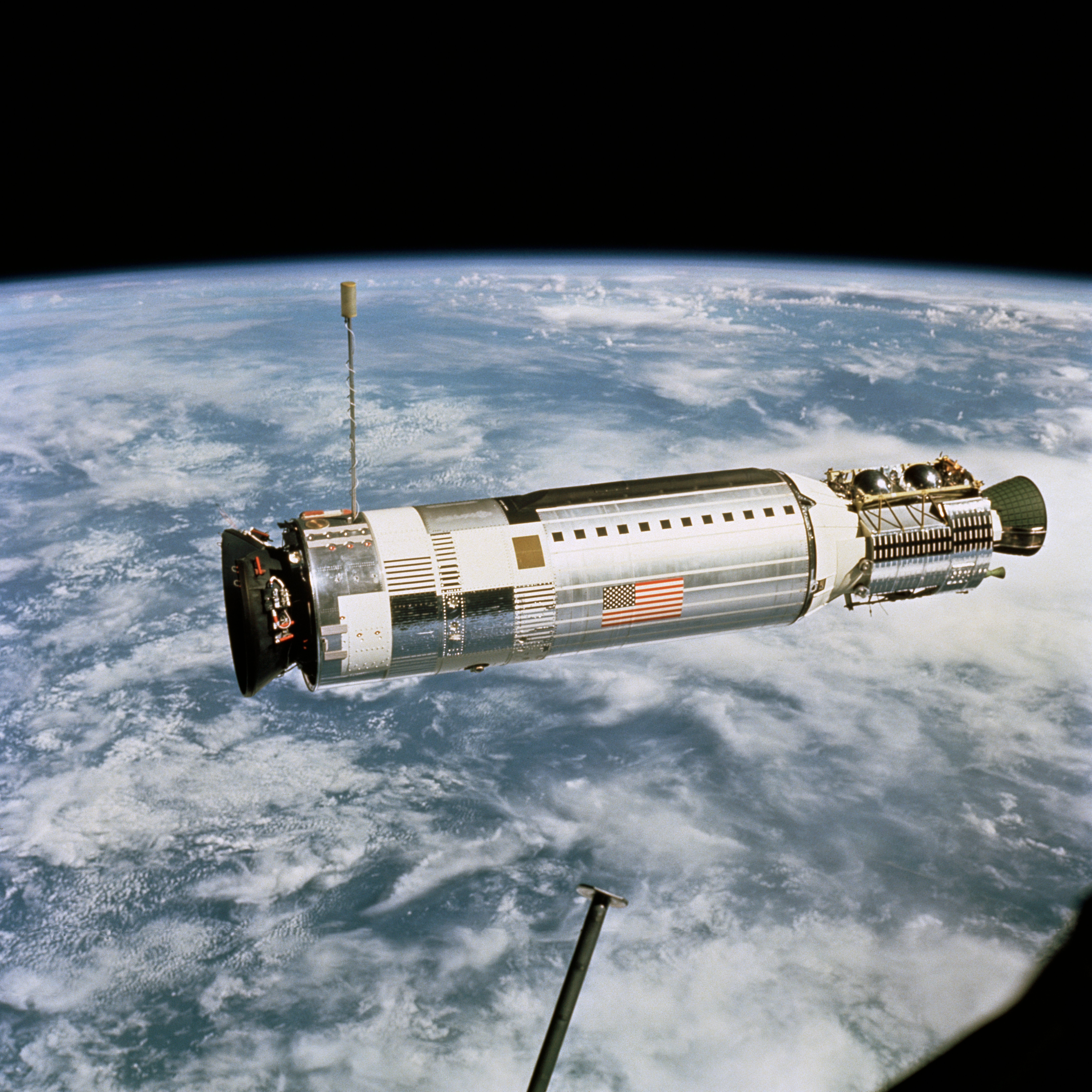 Stereo and side view of the Agena Target Docking Vehicle as seen from the Gemini 12 spacecraft during rendezvous and docking mission in space. The two spacecraft are 50 ft. apart.